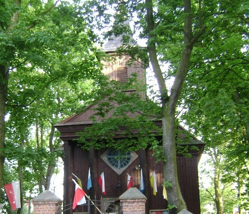 Czarne